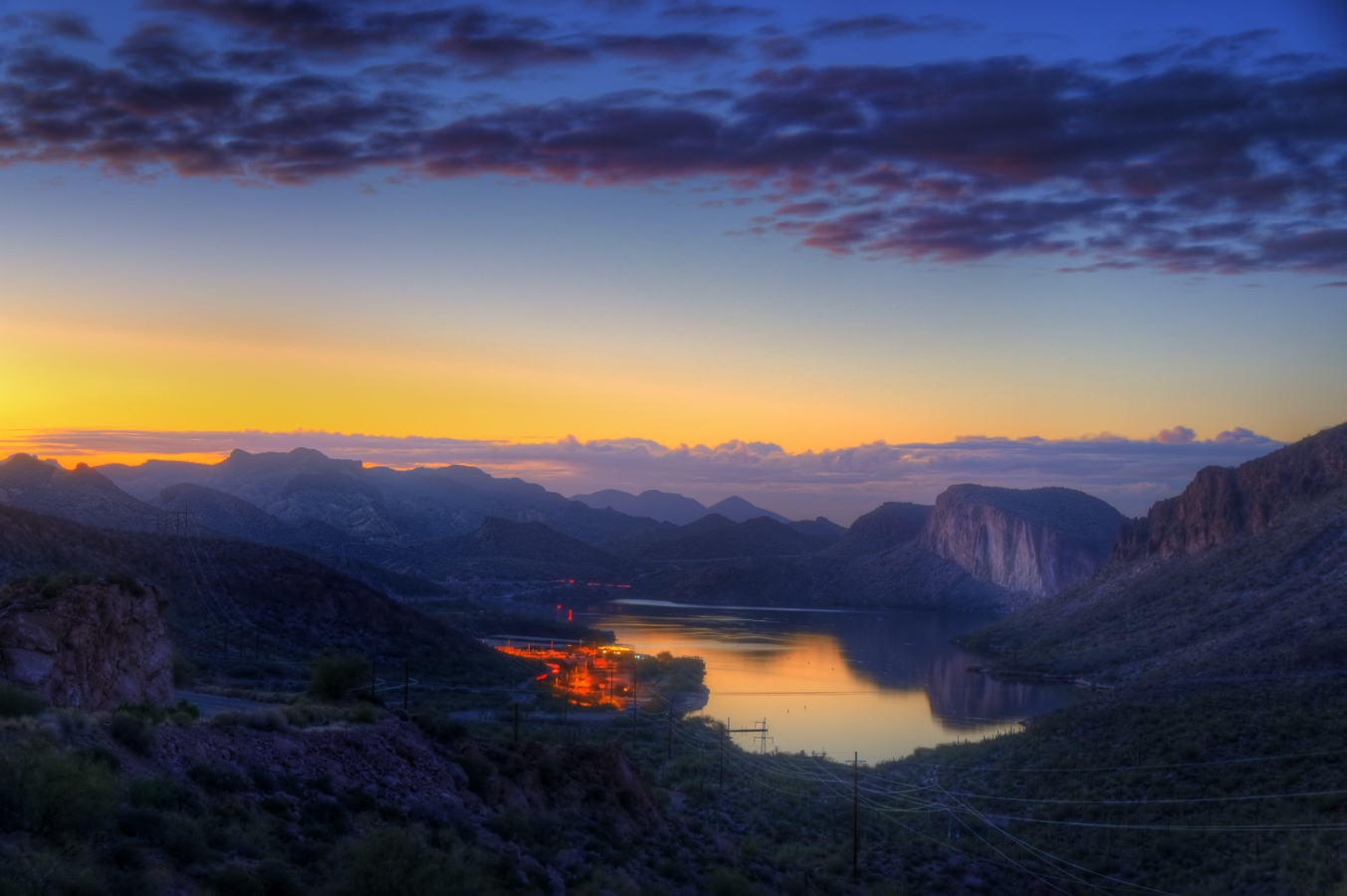 Canyon Lake, East of Phoenix, near Tortilla Flat.